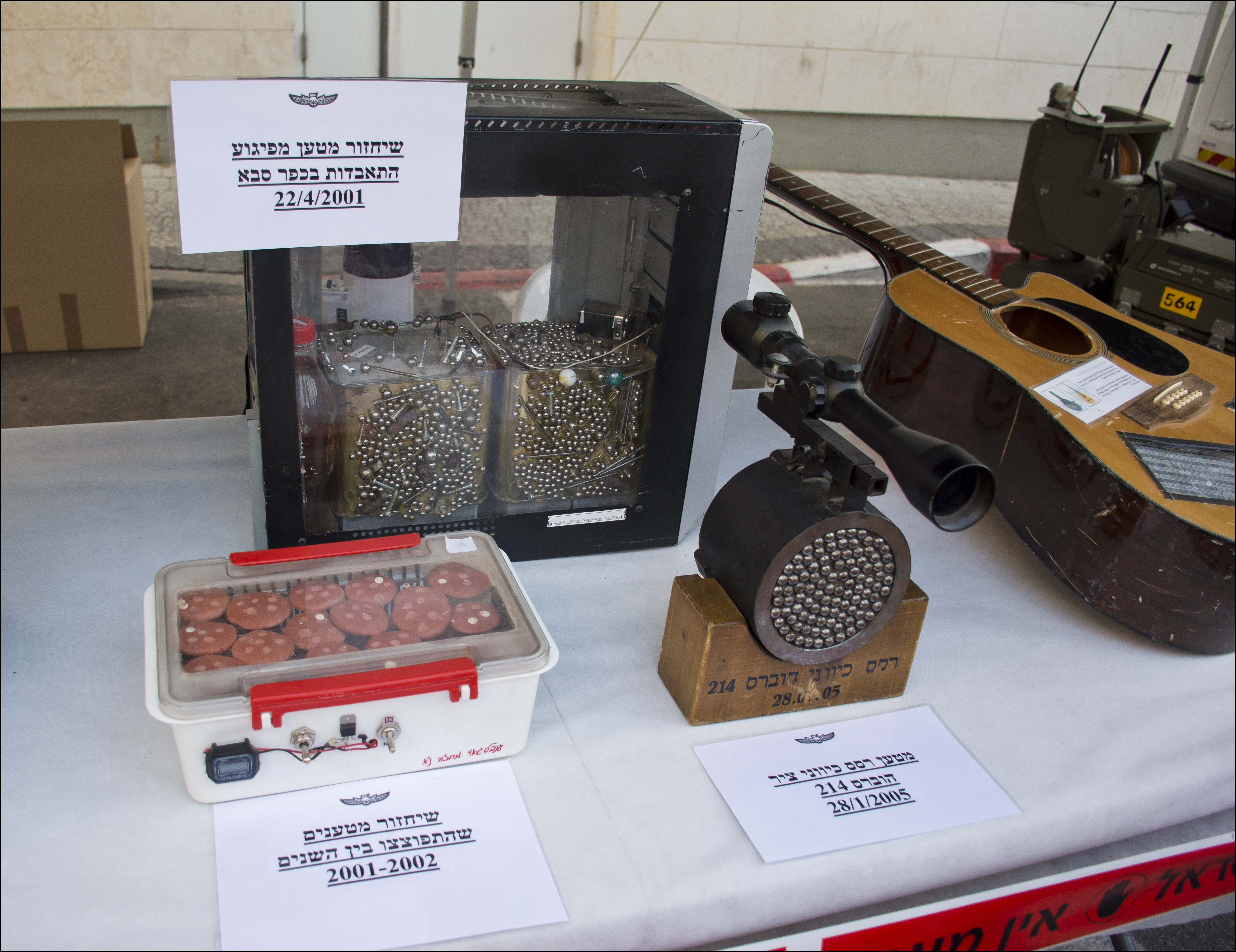 Replicas of Palestinian IEDs used during the Second Intifada, Israeli Police Open Day in Rishon LeZion